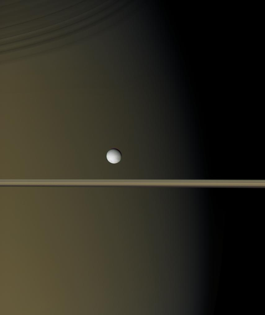 Enceladus hangs like a single bright pearl against the golden-brown canvas of Saturn and its icy rings. Visible on Saturn is the region where daylight gives way to dusk. Above, the rings throw thin shadows onto the planet. Icy Enceladus is 505 kilometers (314 miles) across. Images taken using red, green and blue spectral filters were combined to create this natural color view. The images were taken using the Cassini spacecraft wide-angle camera on Jan. 17, 2006 at a distance of approximately 200,000 kilometers (100,000 miles) from Enceladus. The image scale is 10 kilometers (6 miles) per pixel.